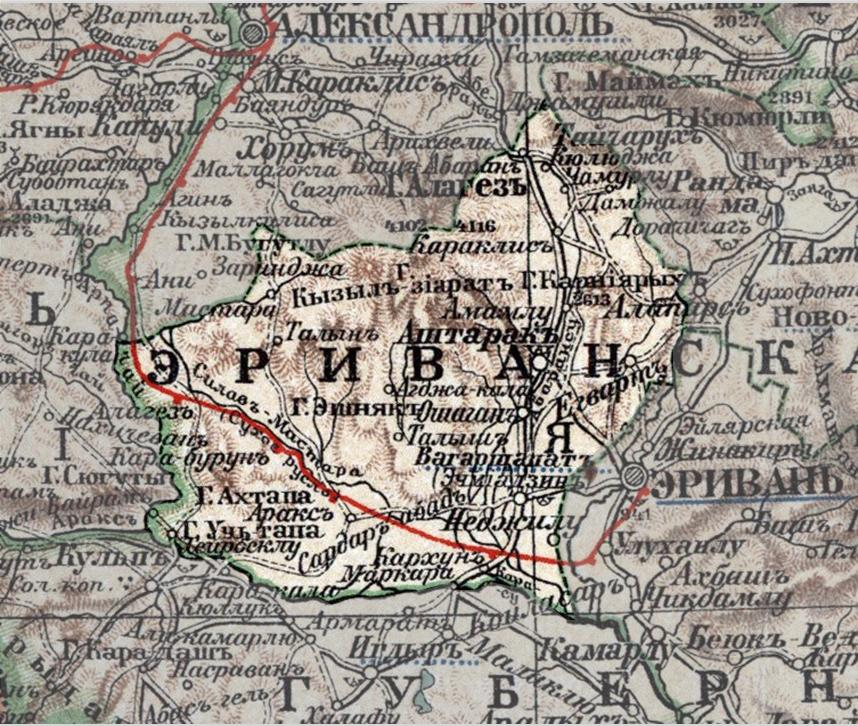 Echmiadzin uyezd's map